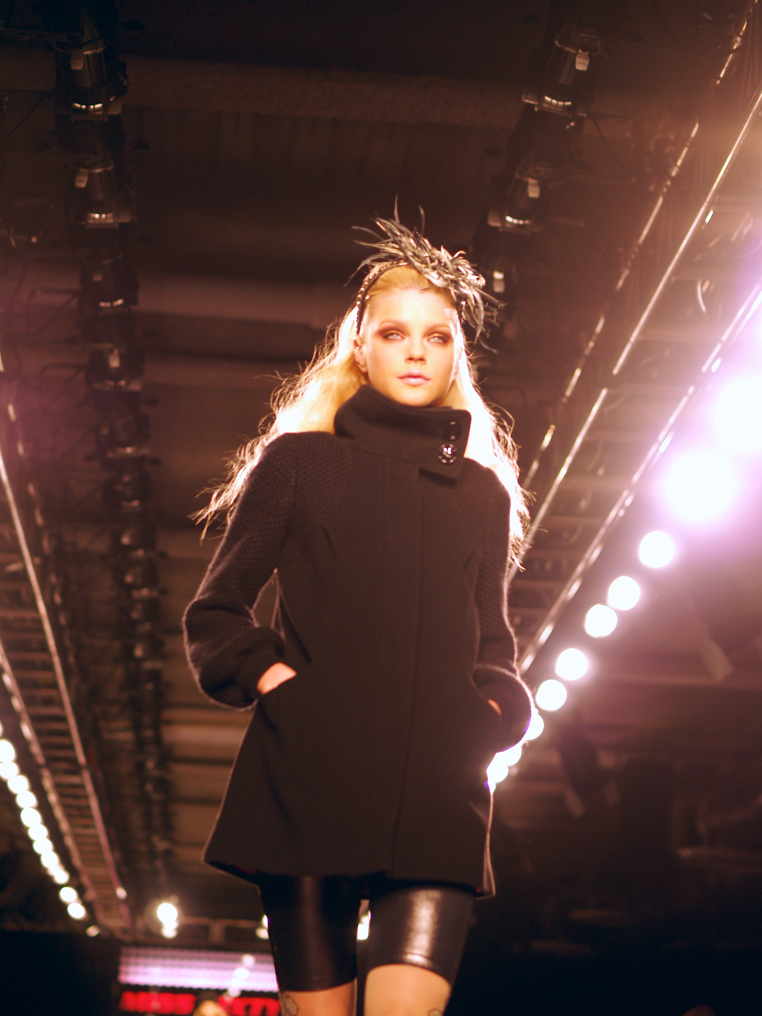 Jessica Stam modeling for Miss Sixty, Fall 2007 New York Fashion Week.